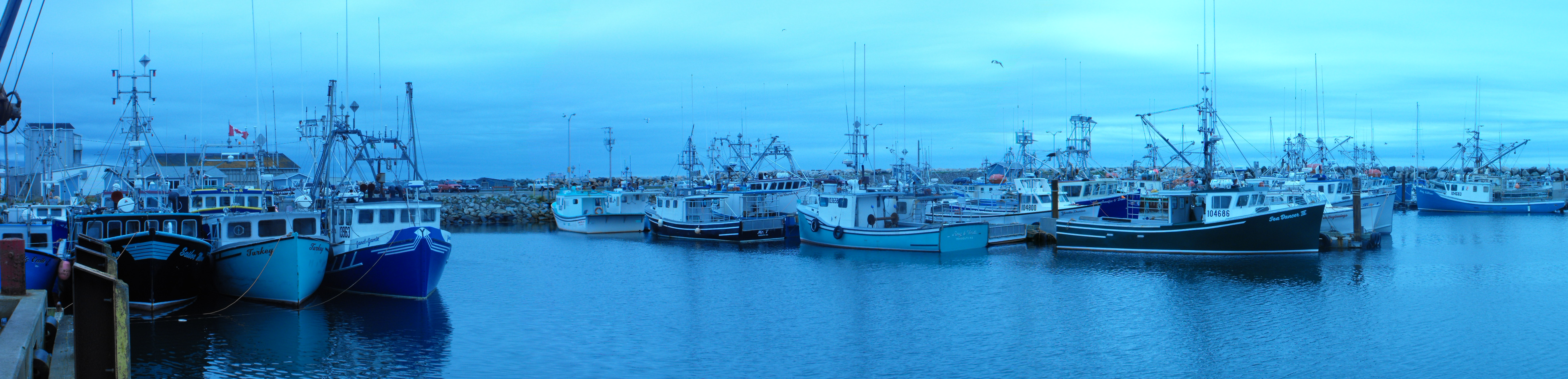 Panoramic view of the fishing fleet in Meteghan Harbour, Nova Scotia.